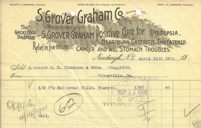 A receipt for half a dozen "Butternut Pills", a Patent medicine sold by the S. Grover Graham Co. of Newburgh, New York, on April 11, 1900.